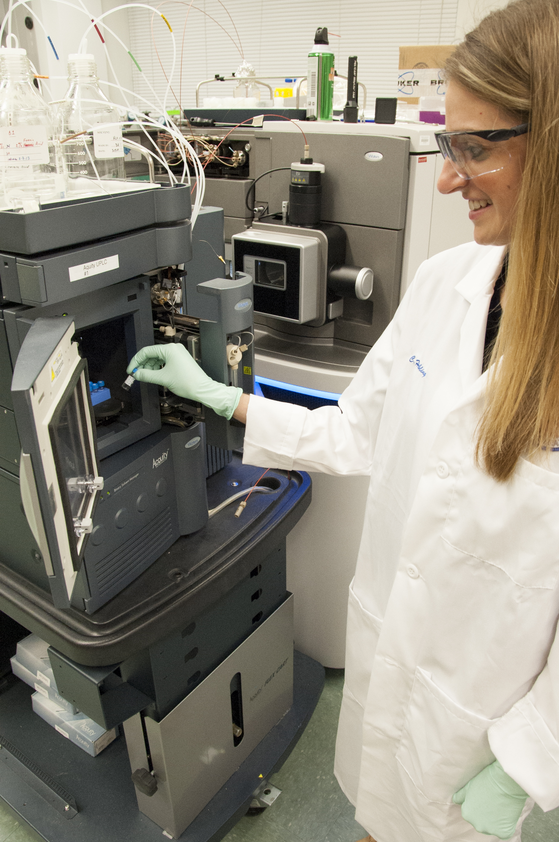 FDA researcher Dr. Christine Hebling loading allergen extracts into an autosampler tray for evaluation by liquid chromatography and mass spectrometry. Hundreds of FDA scientists are working to develop the tools needed to keep bacterial and chemical contaminants out of the food supply, and to rapidly identify the disease-causing bacteria that do infiltrate foods and cause outbreaks of foodborne illnesses. Among them are the researchers at FDA's Center for Food Safety and Applied Nutrition (CFSAN), in College Park, Md. This photo is free of all copyright restrictions and available for use and redistribution without permission. Credit to the U.S. Food and Drug Administration is appreciated but not required. Privacy and use information: FDA photo by Michael J. Ermarth